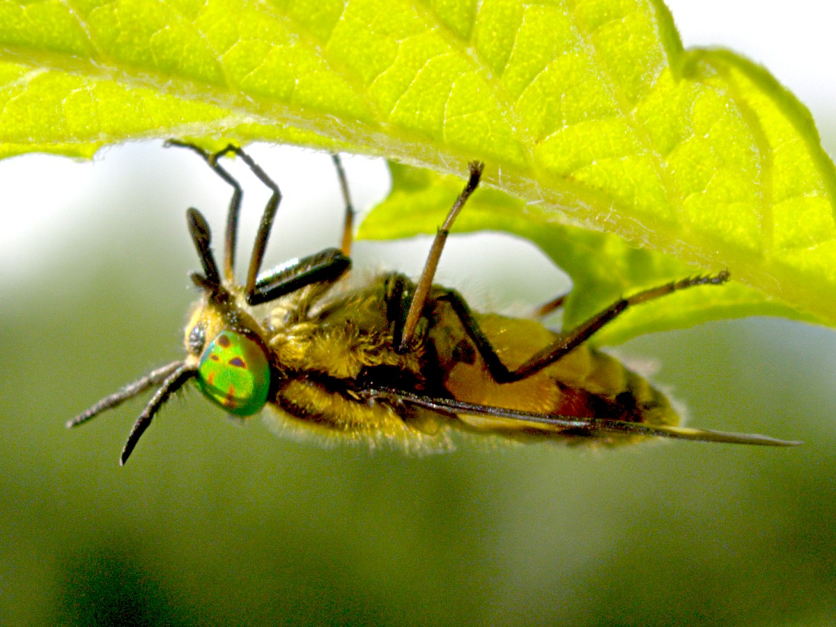 Name: Chrysops relictus. Family: Tabanidae. Male, hidden under Lycopus europaeus. Location: Münster, NRW, Germany